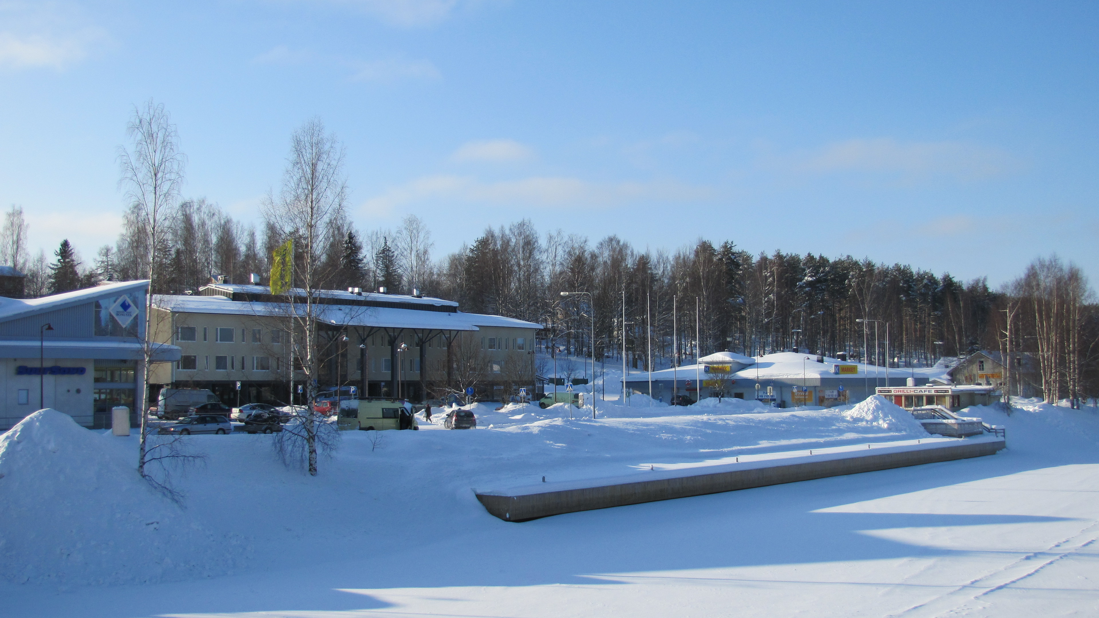 Sulkava centre in winter with town hall, stores and market place. Uitonvirta strait in front, Sulkava, Finland